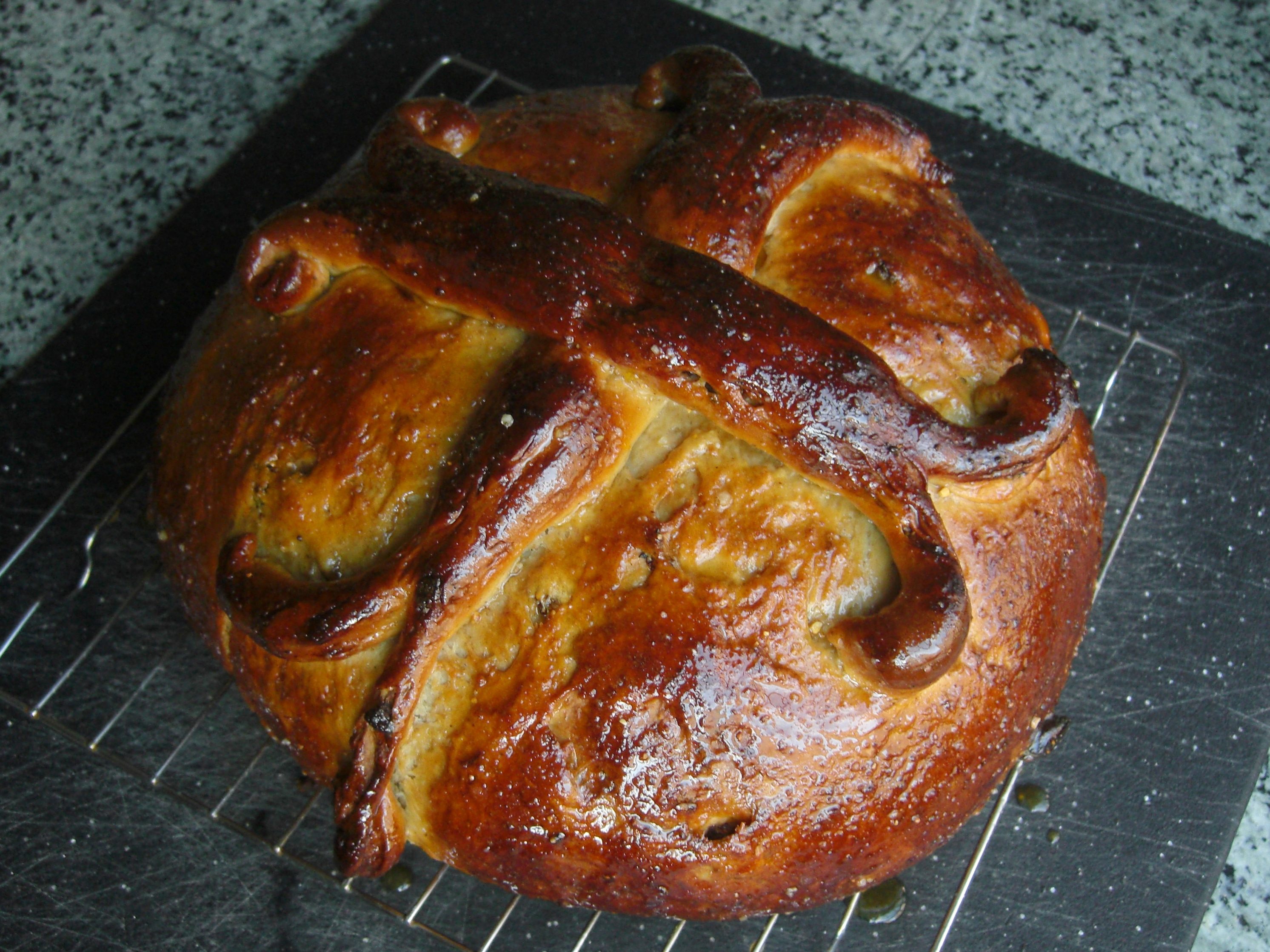 Christmas 2011